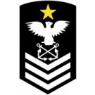 This is sleeve insignia for a Ship's Leading Petty Officer in the USNLCC.